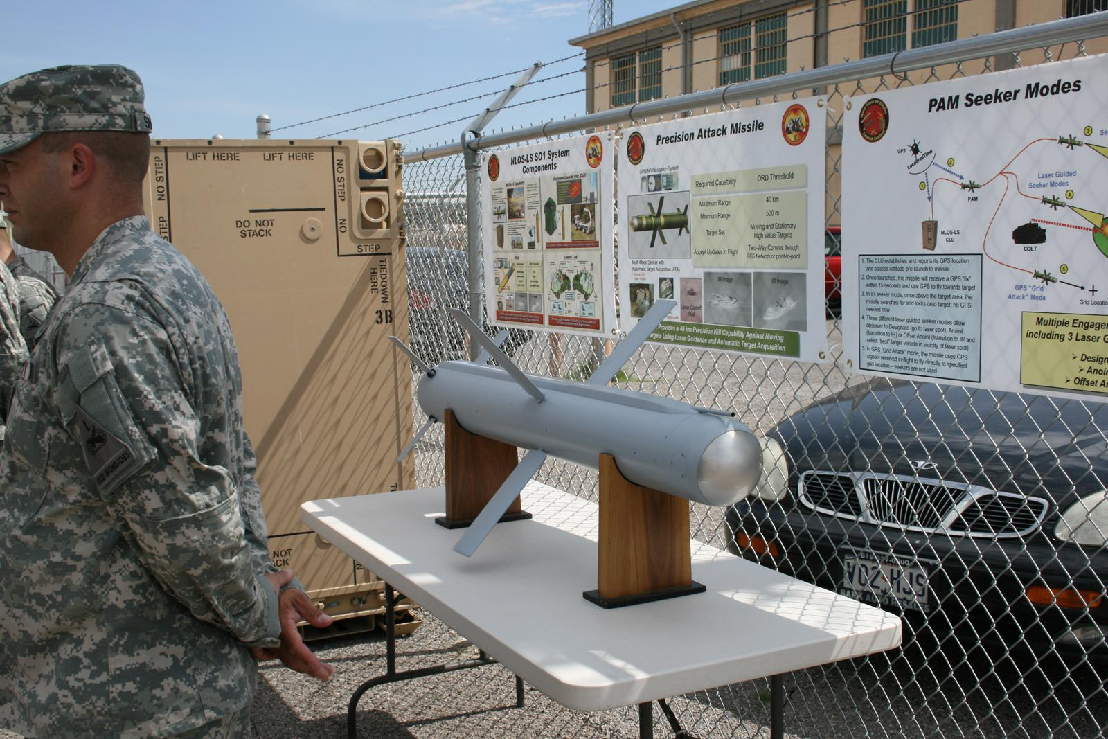 Preliminary Limited User Test (P-LUT) Spin Out Images nlos-ls pam missile